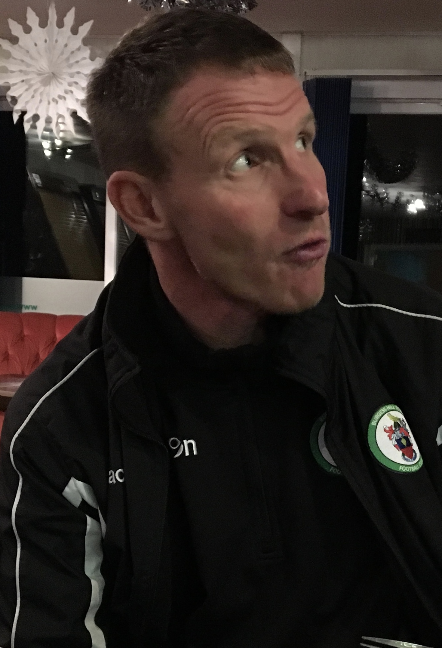 Stuart Tuck in the clubhouse at Burgess Hill FC December 2016